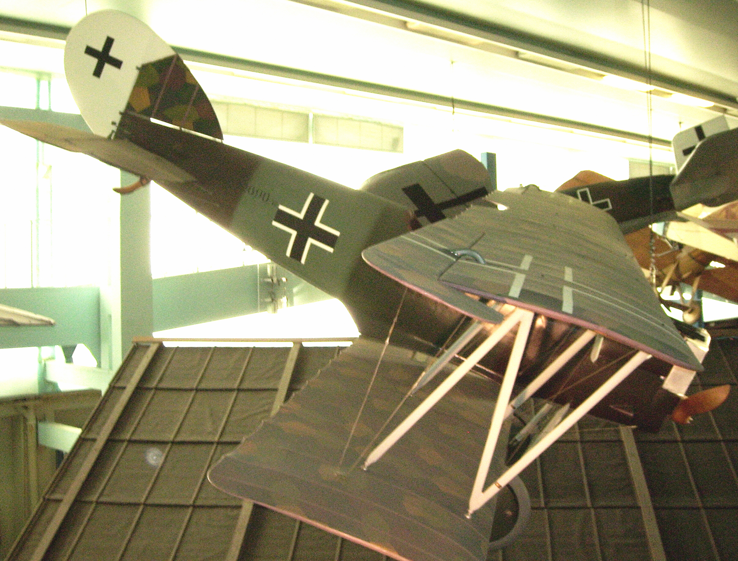 Pfalz D.XII preserved at the Musee de l'Air et de l'Espace, Paris Le Bourget